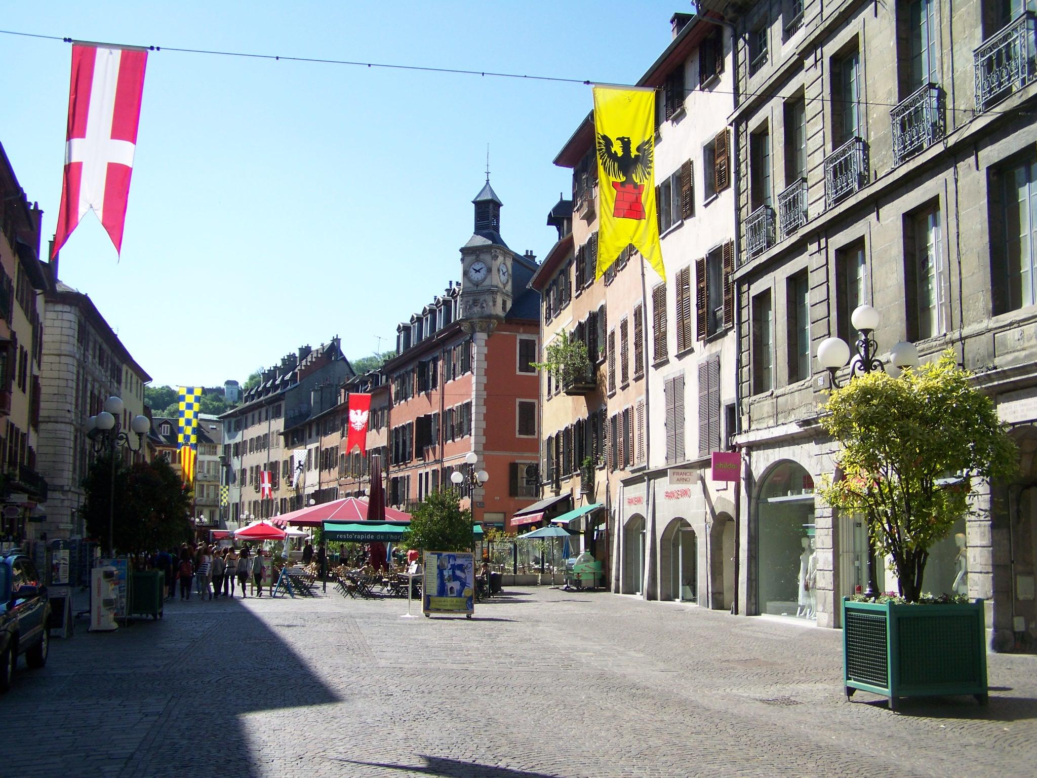 Sight of the place St-Léger, major pedestrian street in Chambéry, Savoie, France.